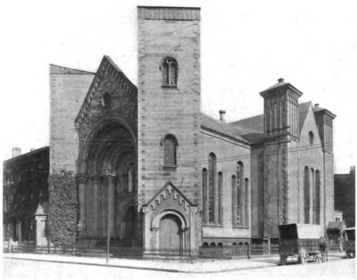 St. Paul Episcopal Cathedral (Cincinnati) seen in a book from 1912.